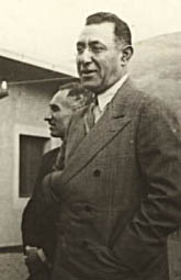 Ali-Akbar Dāvar (1888-1937), Iranian politician and founder of the modern judicial system of Iran.